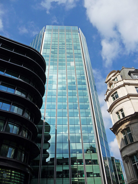 Former London Stock Exchange Building When I first saw this I assumed the old building had been demolished, but not so, apparently the original structure has been refurbished and recladded with glass.